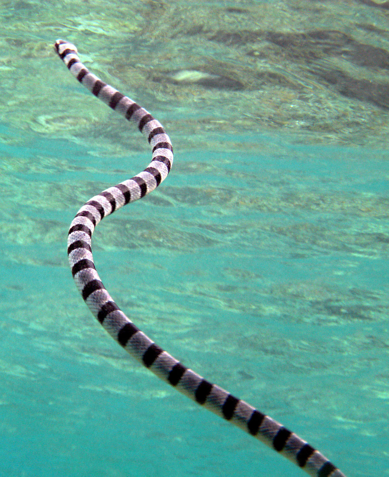 A banded sea krait (Laticauda colubrina) is seen here off the shoreline of Wakatobi, Indonesia.